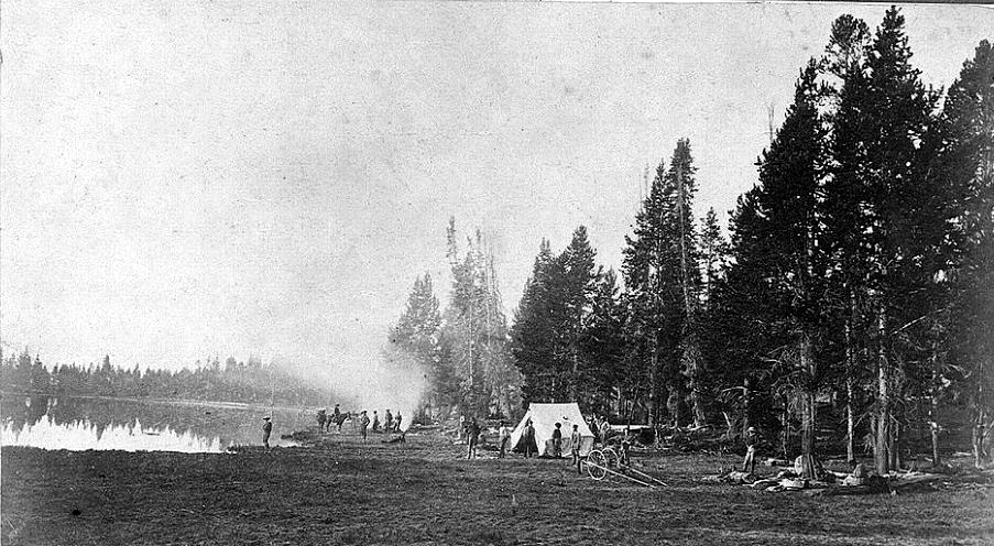 Photograph of Yellowstone. 1871, by William Henry Jackson. Camp on Mirror Lake during the Hayden Geologic Expedition of 1871